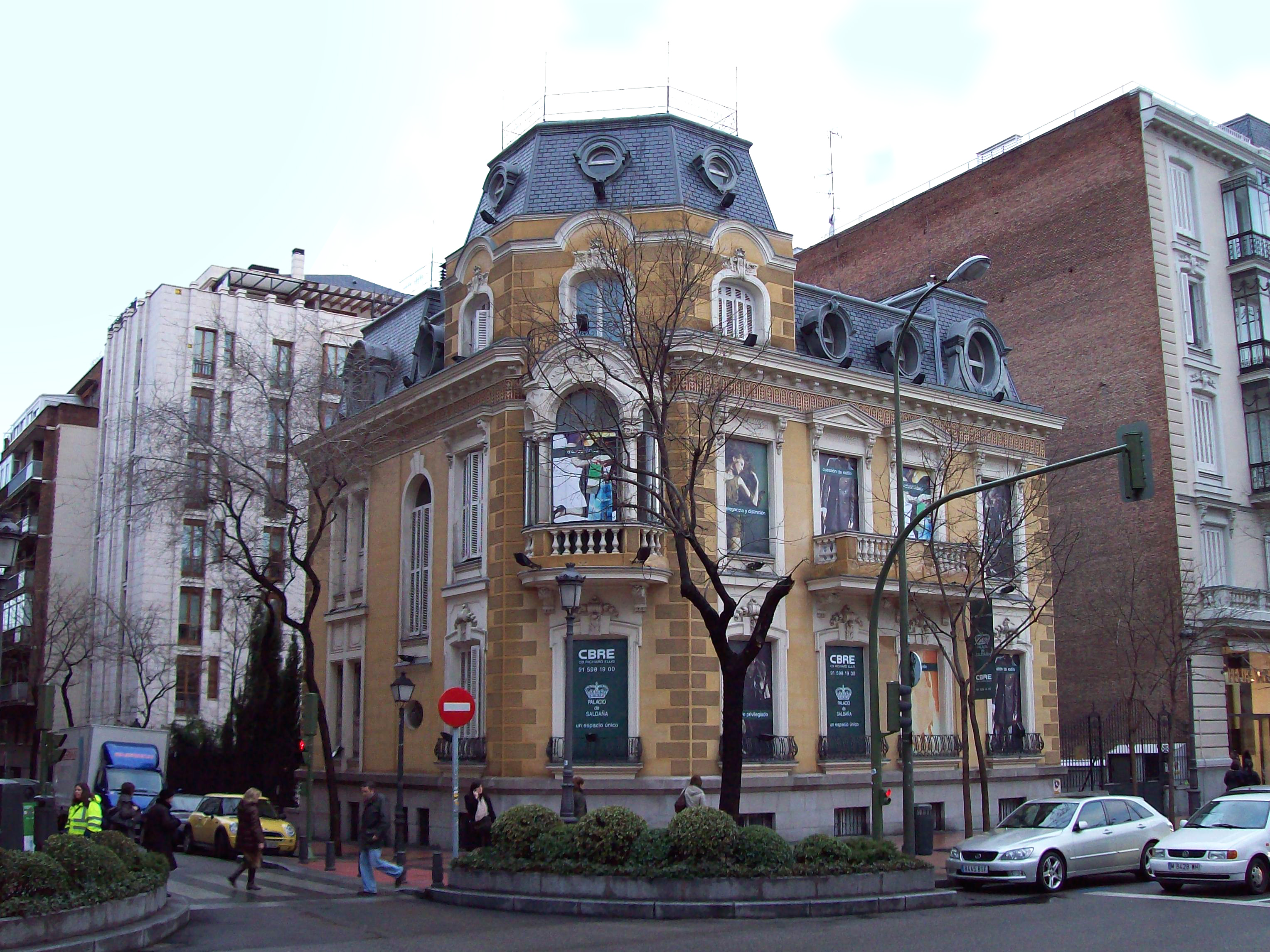 View of Palacio de Saldaña, at 32 Calle de José Ortega y Gasset (street) in Salamanca district in Madrid (Spain). It was projected in 1903 by architect Joaquín Saldaña López and built from 1903 to 1906.